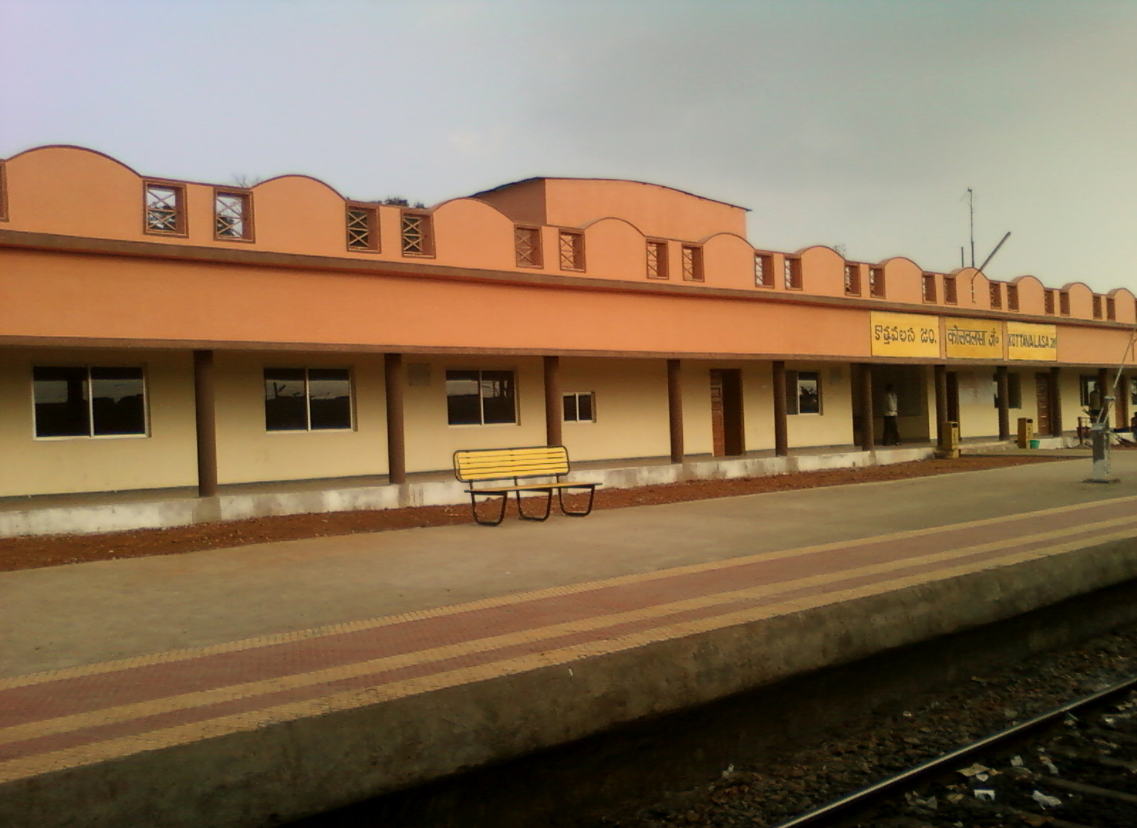 Kottavalasa Train Station in Vizianagaram district